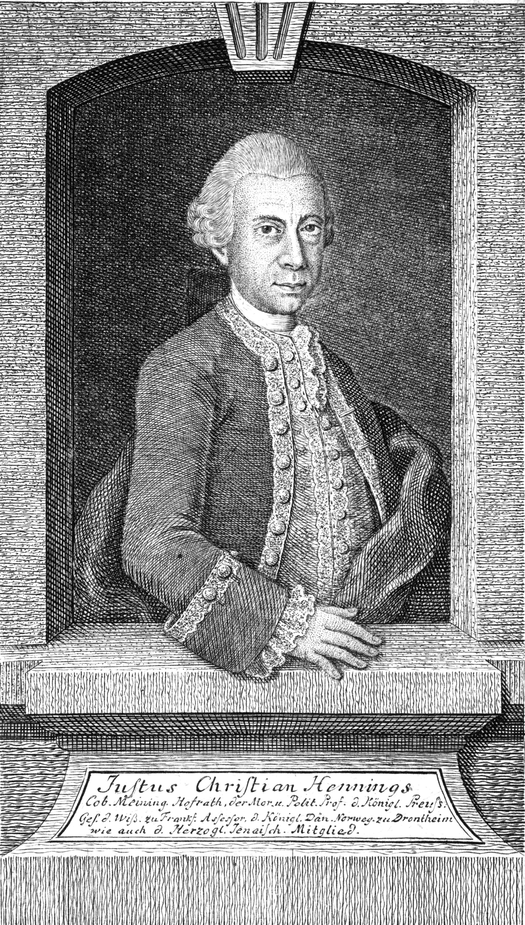 Justus Christian Hennings (1731-1815) german Philosopher